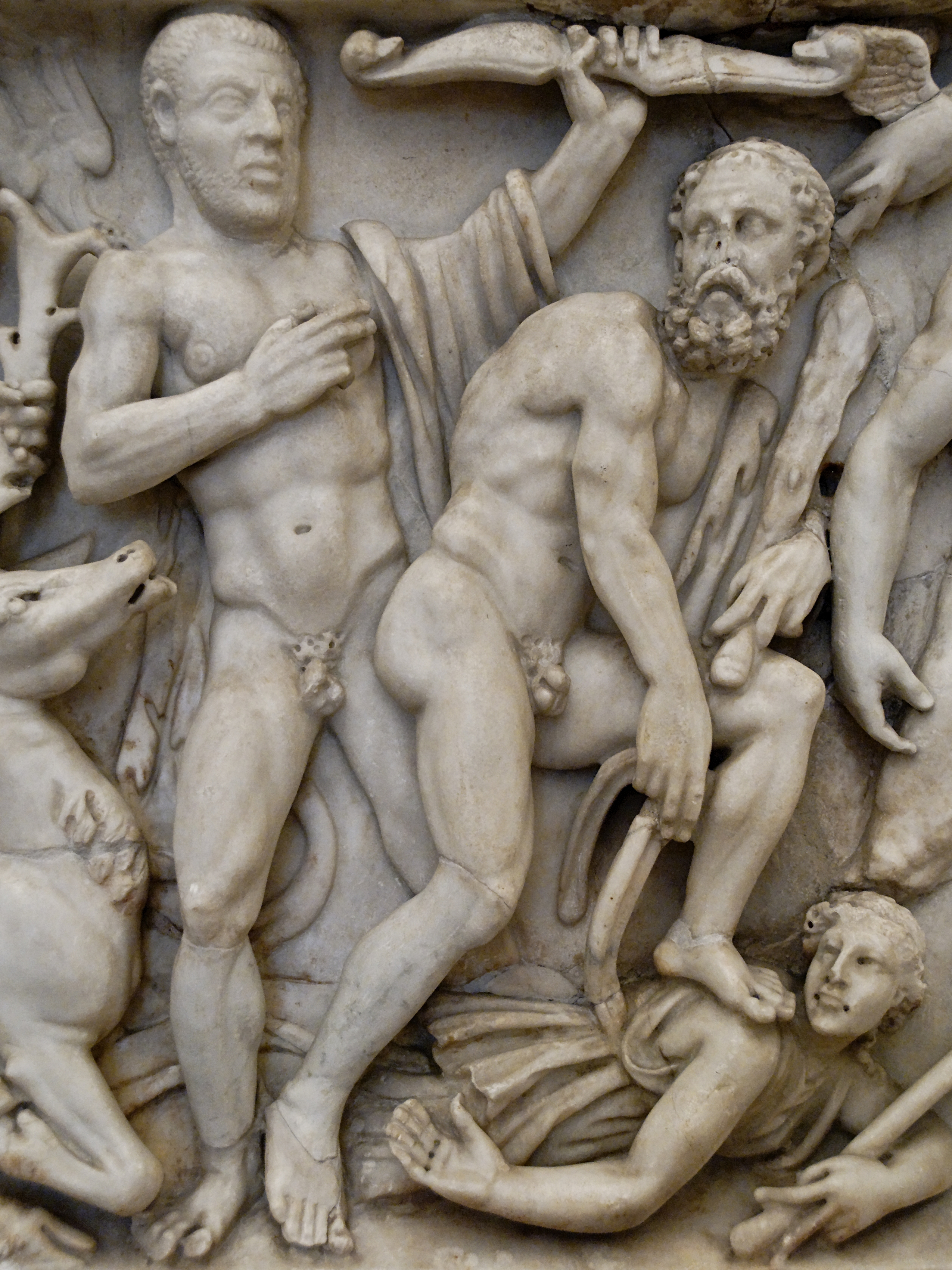 Front panel from a sarcophagus with the Labours of Heracles, detail: the dead man as Heracles. Luni marble, Roman artwork from the middle 3rd century CE.